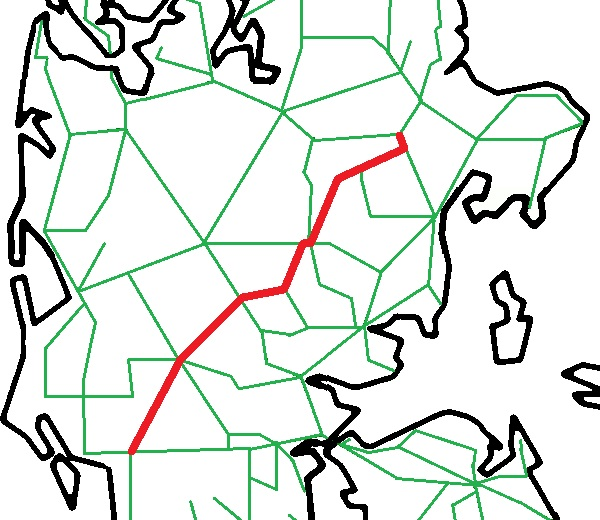 Map of railways in Middle Jutland in Denmark with the state railway Langå-Bramming-banen in red.